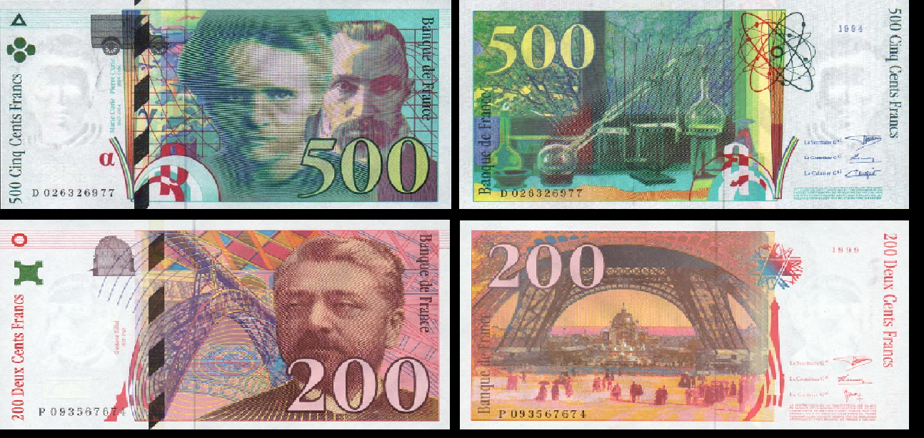 200 and 500 french franc banknotes